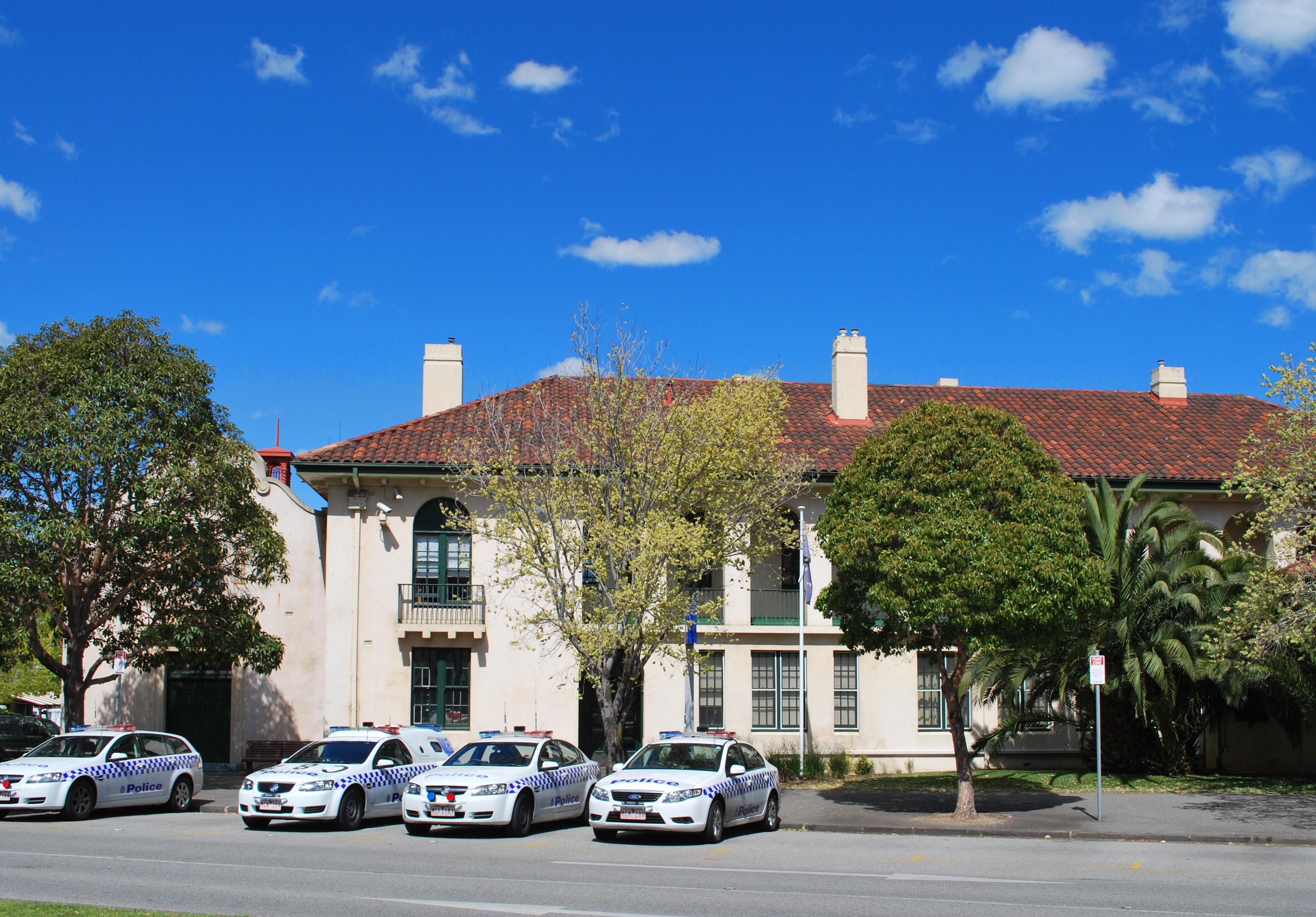 Police station at South Melbourne, Victoria